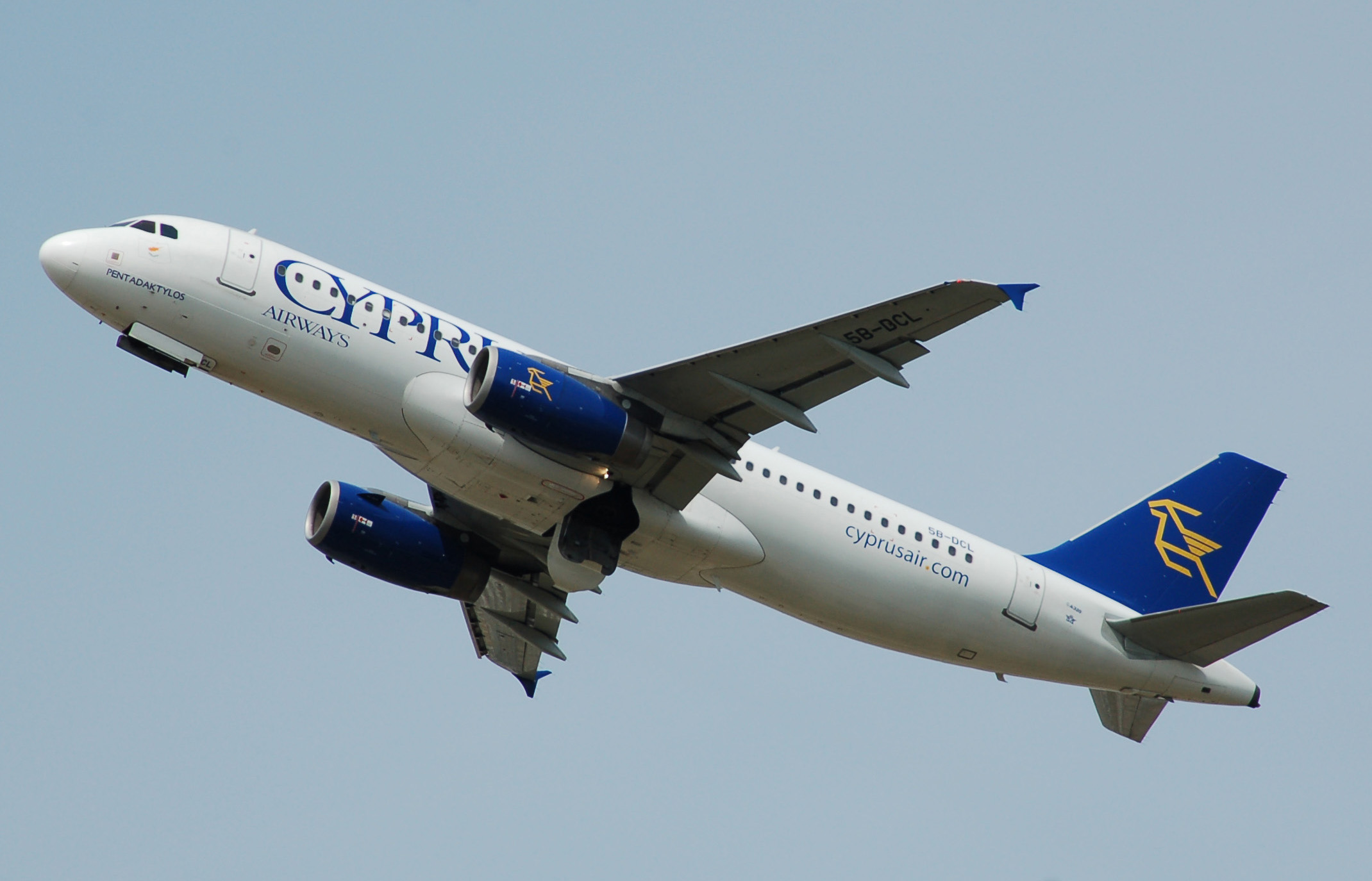 Cyprus Airways Airbus A320-200 (5B-DCL) departs London Heathrow Airport, England, 2nd July 2014. The undercarriage doors are yet to close.